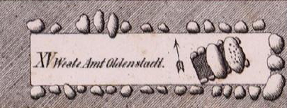 Megalithic tomb Weste 1, Sprockhoff-No 790